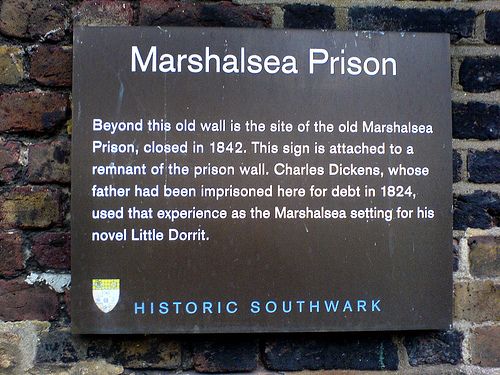 Plaque on the remaining wall of the Marshalsea prison, Southwark, London SE1